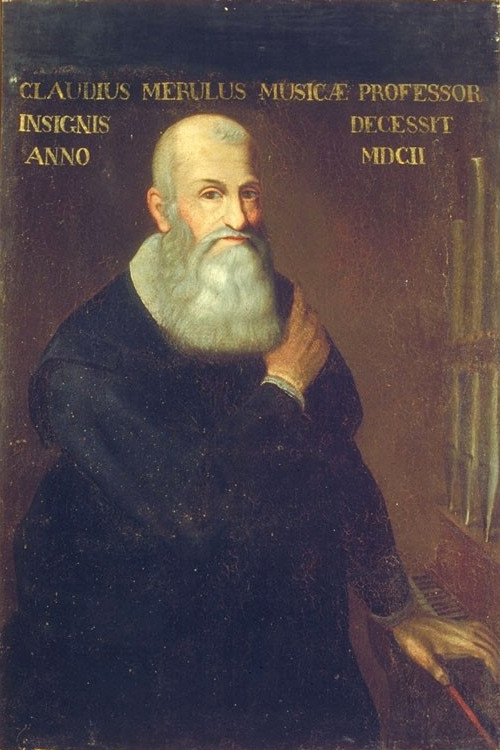 Depicted person: Claudio Merulo